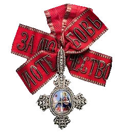 Order of St. Catharine Russia